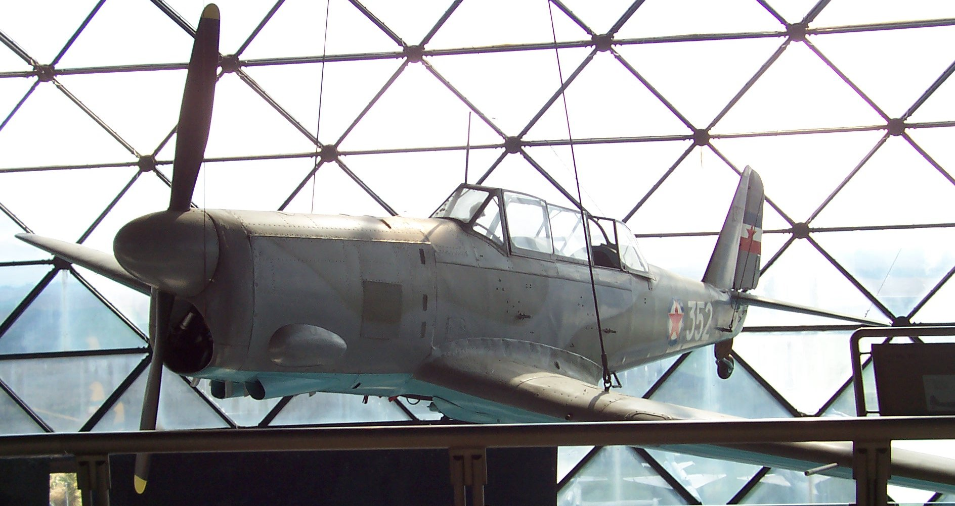 Image shows Yugoslav airplane type 213, in the Museum of Yugoslav Aviation, Belgrade, Serbia. Airplane was used for pilot training in 1950's.